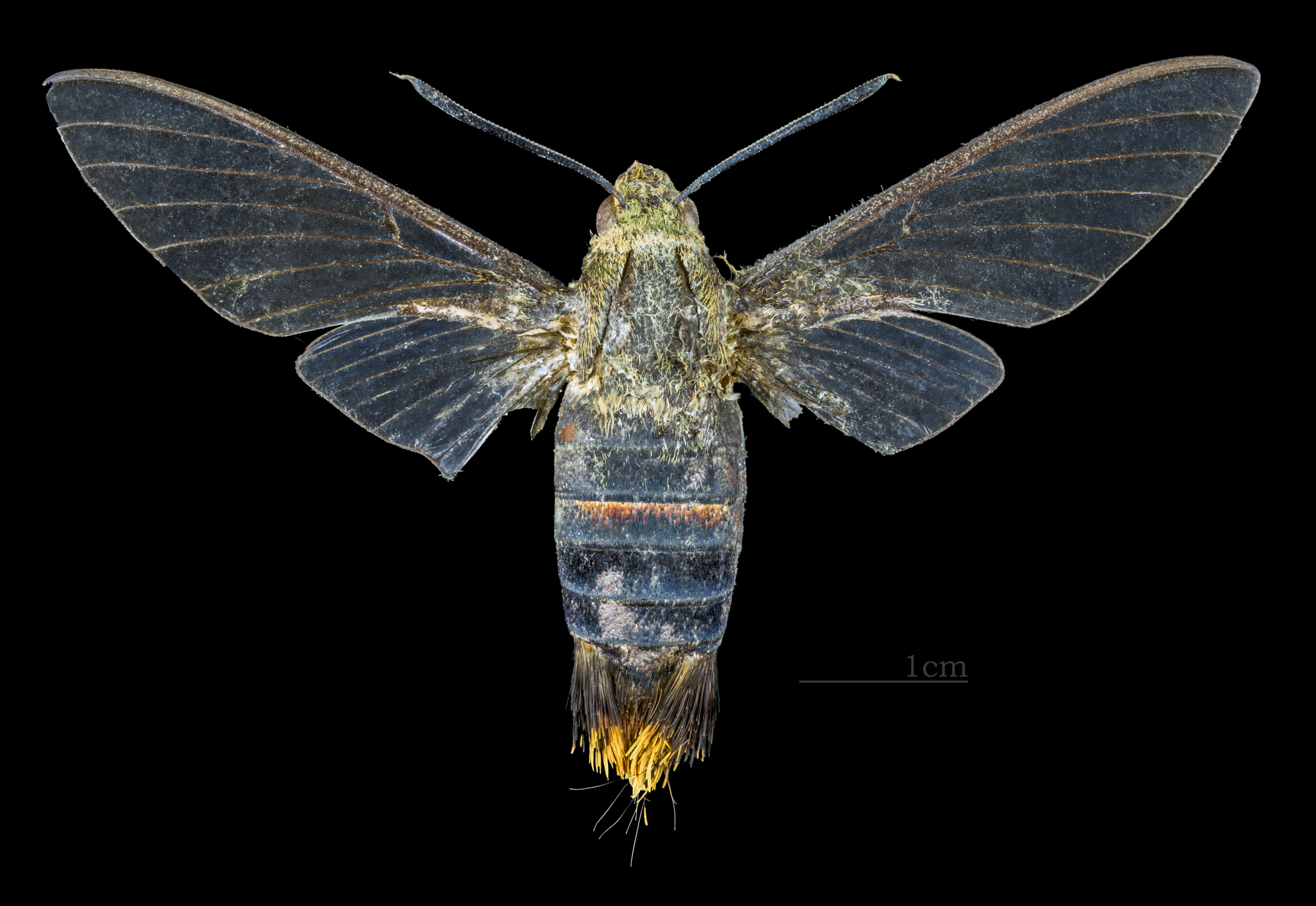 Cephonodes banksi - Dorsal side